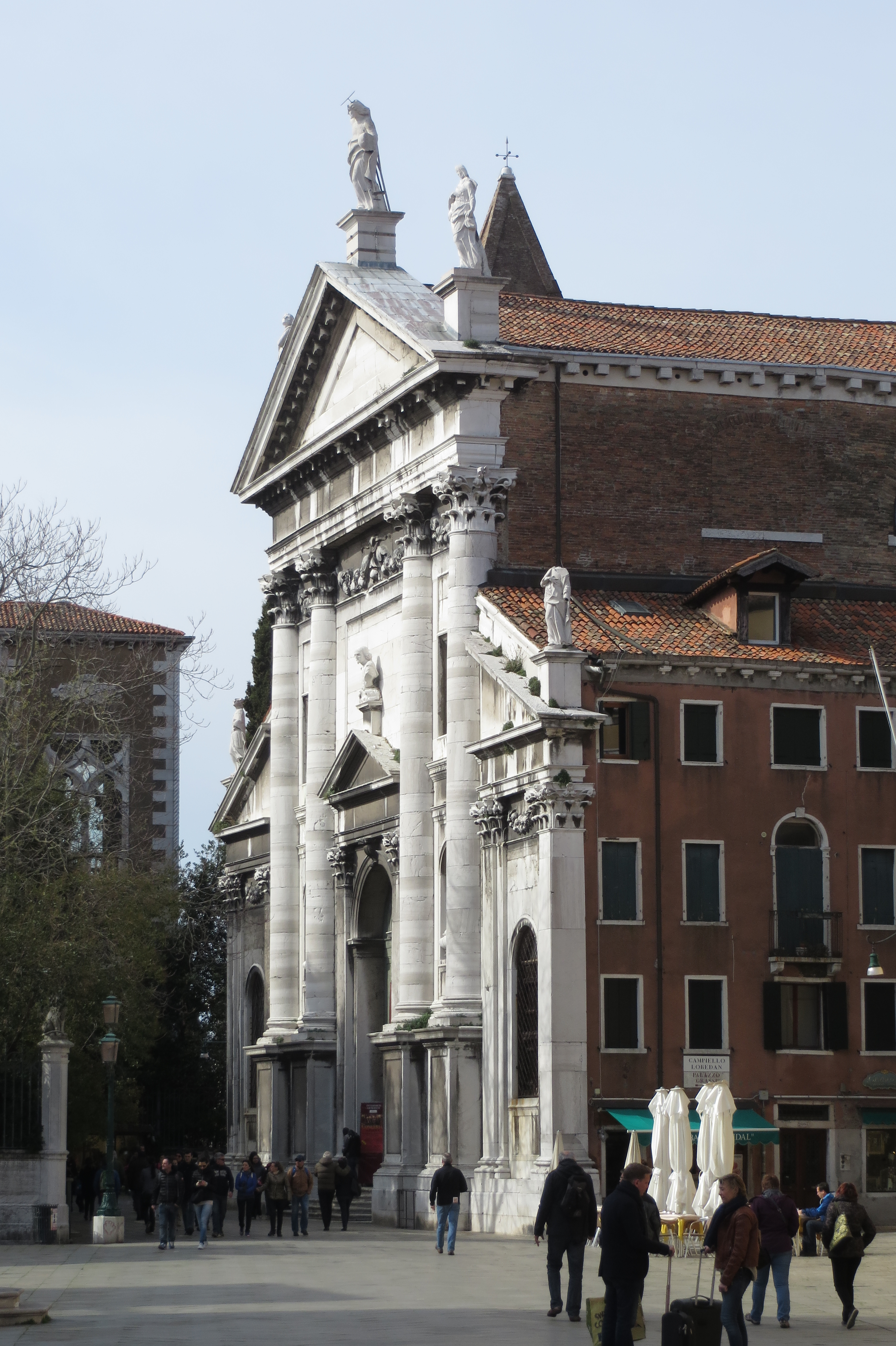 Church San Vidal, Venice